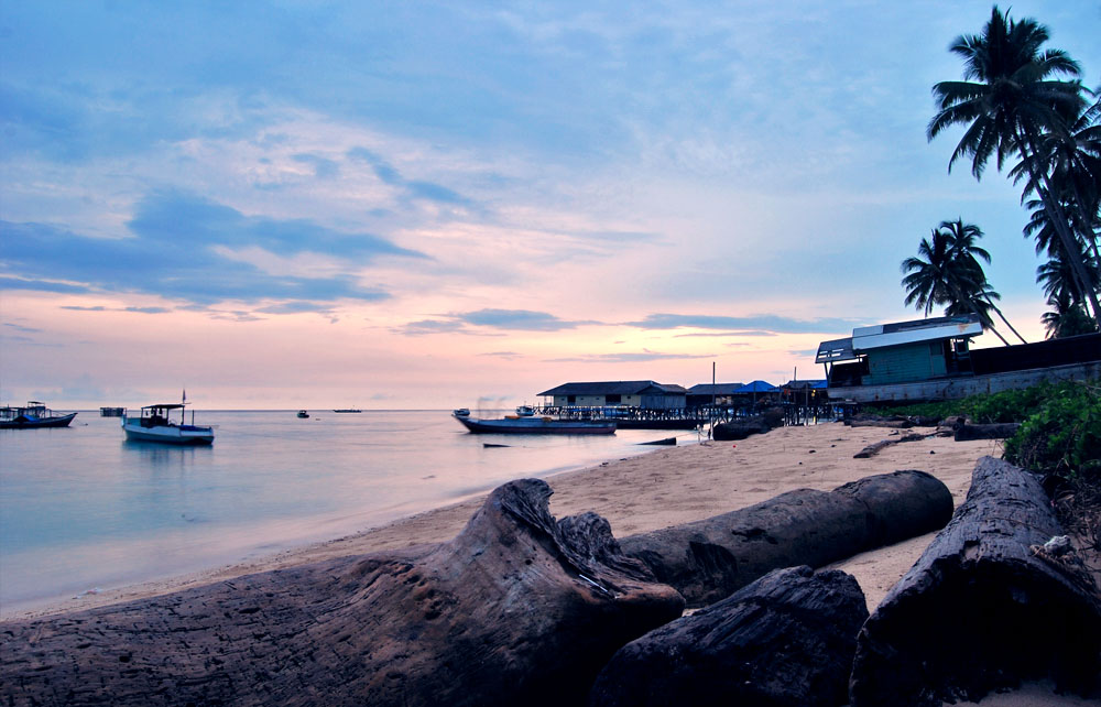 A quiet morning in Derawan Island, East Kalimantan. This is the view just outside my hotel room in Derawan. We stayed 3 days at this island during our trip. This island has crystal clear water and white sands on its beaches. Turtles were just outside your hotel room and they will come to you as you feed them banana leaves.